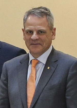 190910-N-IK388-006 NORFOLK (Sept. 10, 2019) Adm. Christopher W. Grady, commander, U.S. Fleet Forces (USFF) Command, left, and Vice Adm. Andrew Lewis, commander, U.S. 2nd Fleet, far right, pose with participants of the Nordic-Baltic-U.S. Forum Deputy Minister of Defense Conference at the USFF headquarters building on Naval Support Activity Hampton Roads. (U.S. Navy photo by Mass Communication Specialist 2nd Class Stacy M. Atkins Ricks/Released)